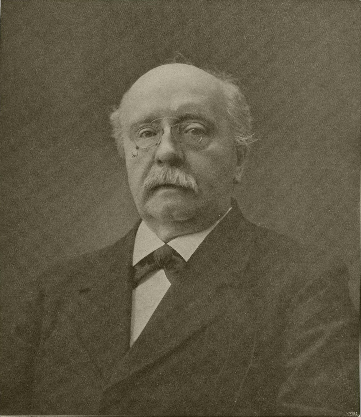 Hendrik Barend Greven (1850-1933), law professor Leiden University (The Netherlands)